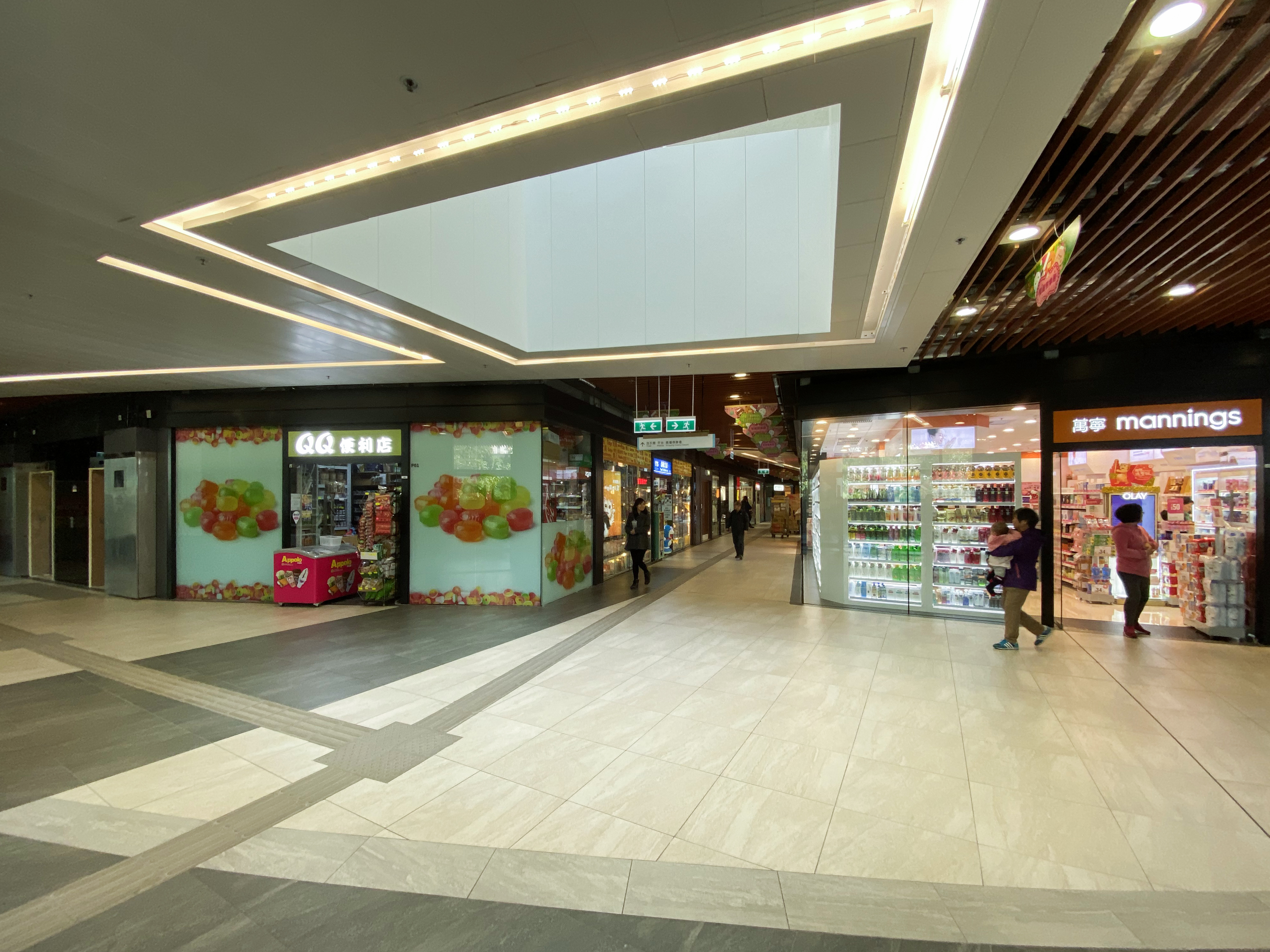 Shek Mun Shopping Centre